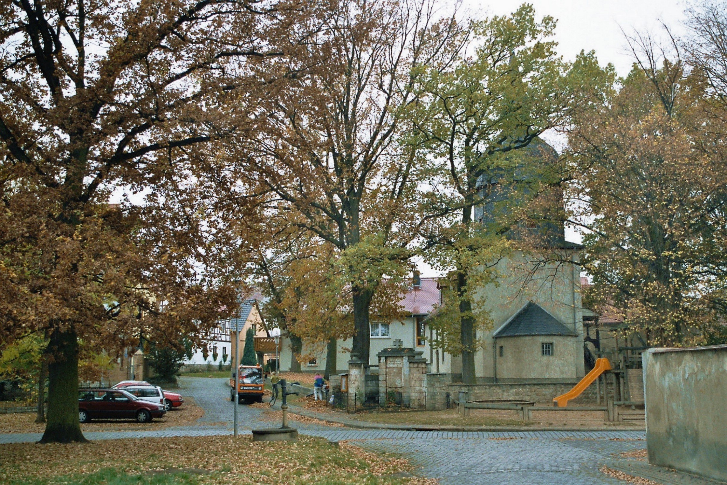 The village church